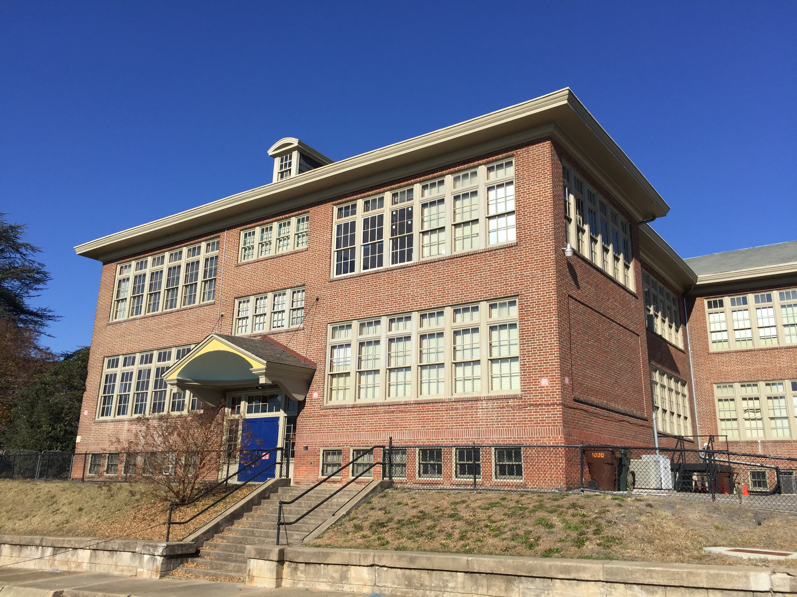 Front entrance of the Robert Fulton School, as seen from Carlisle Avenue